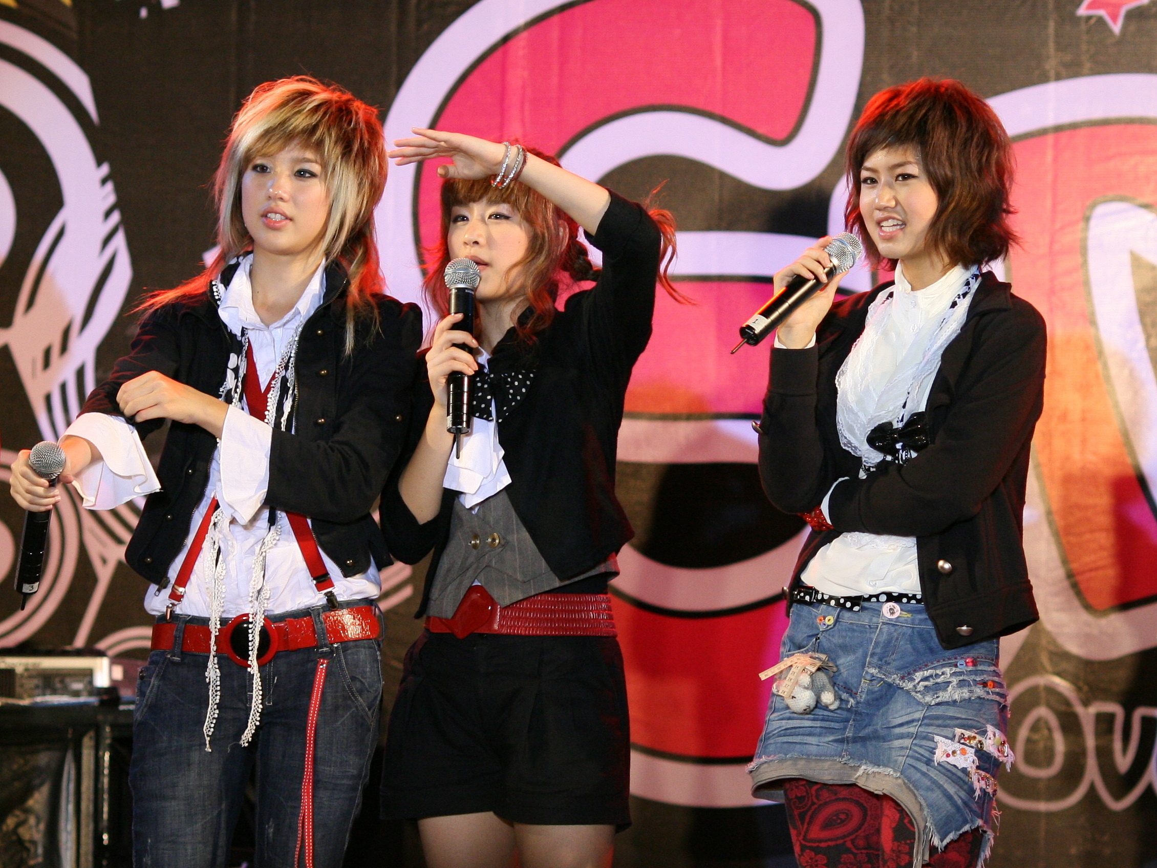 Thai girl group FFK (Faye Fang Kaew) fron Advance on Stage Overheat Greet Concert, CentralWorld. From left to right: Kaew (Jarinya Sirimongkolsakul), Fang (Dhanantorn Neerasingh) and Faye (Pornpawee Neerasingh).